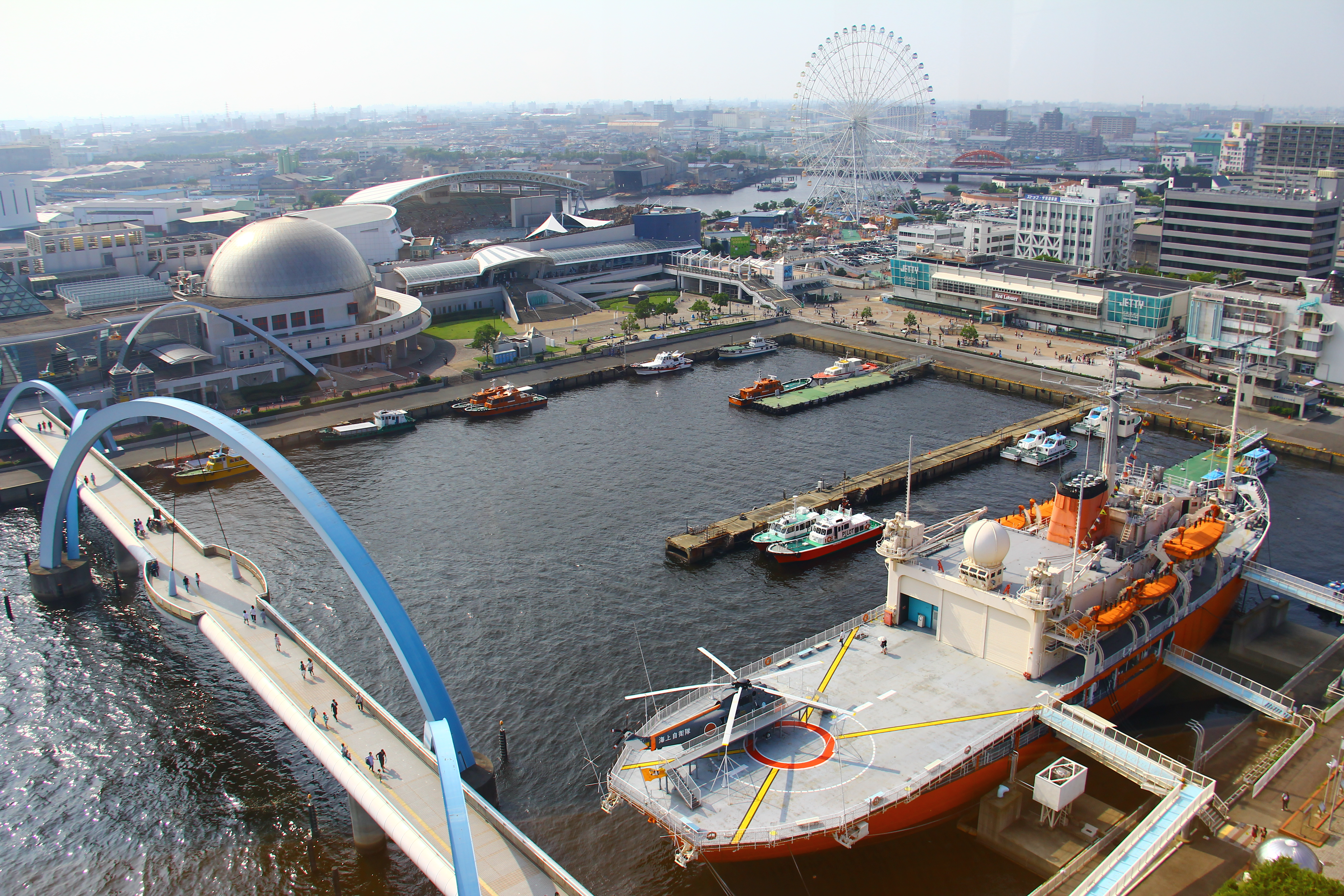 Aquarium + Giant wheel + Fuji Icebreaker - view from the lighthouse - Nagoya Port - Japan